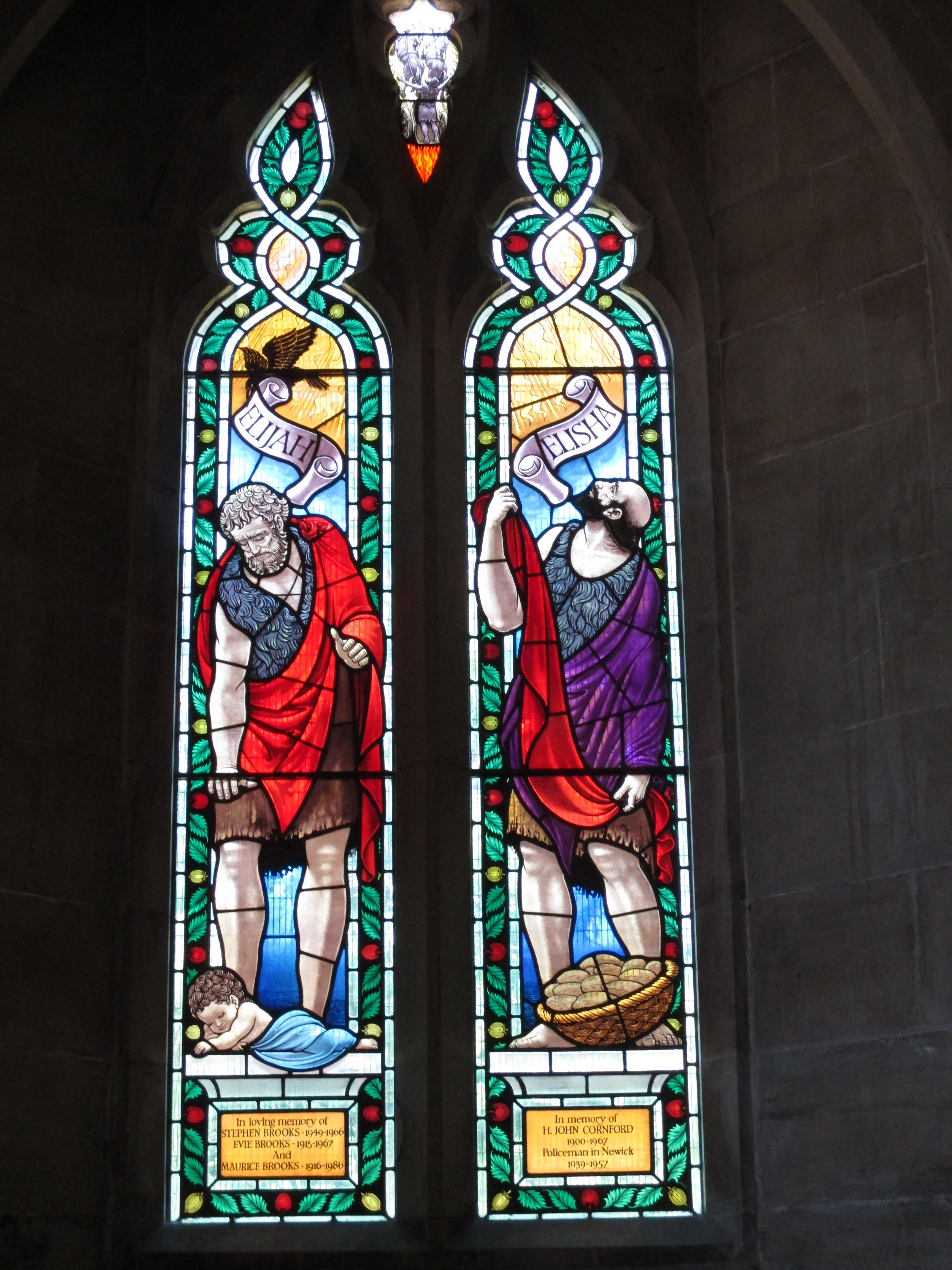 The third north aisle window of St Mary's Church, Newick, East Sussex. It was produced by the studio of Cox and Barnard in 1986, and depicts the prophets Elijah and Elisha.